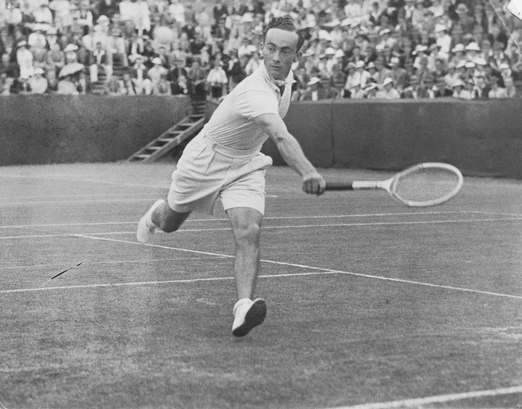 Creator: George A. Jackman Location: Brisbane, Queensland Description: Viv McGrath in action on the court at Milton Tennis Centre, Brisbane. Viv won his match against John Bromwich during the Queensland Tennis Finals. View this image at the State Library of Queensland: Information about State Library of Queensland’s collection: .au/